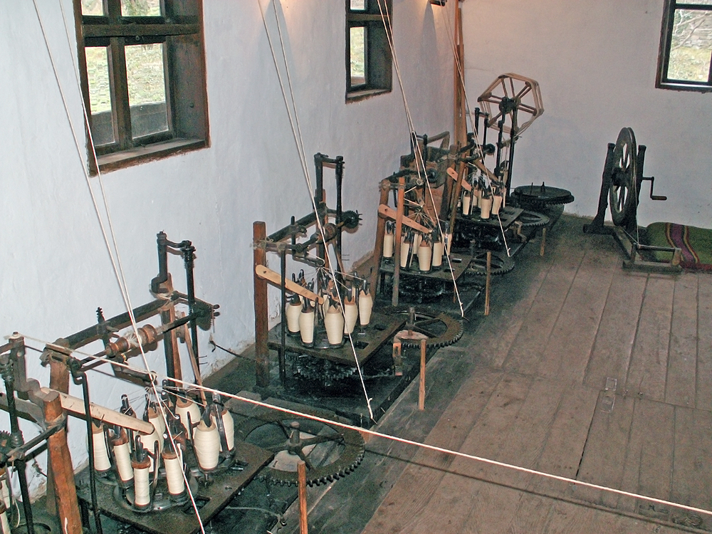 19th century braiding factory from Etara, Gabrovo, Bulgaria